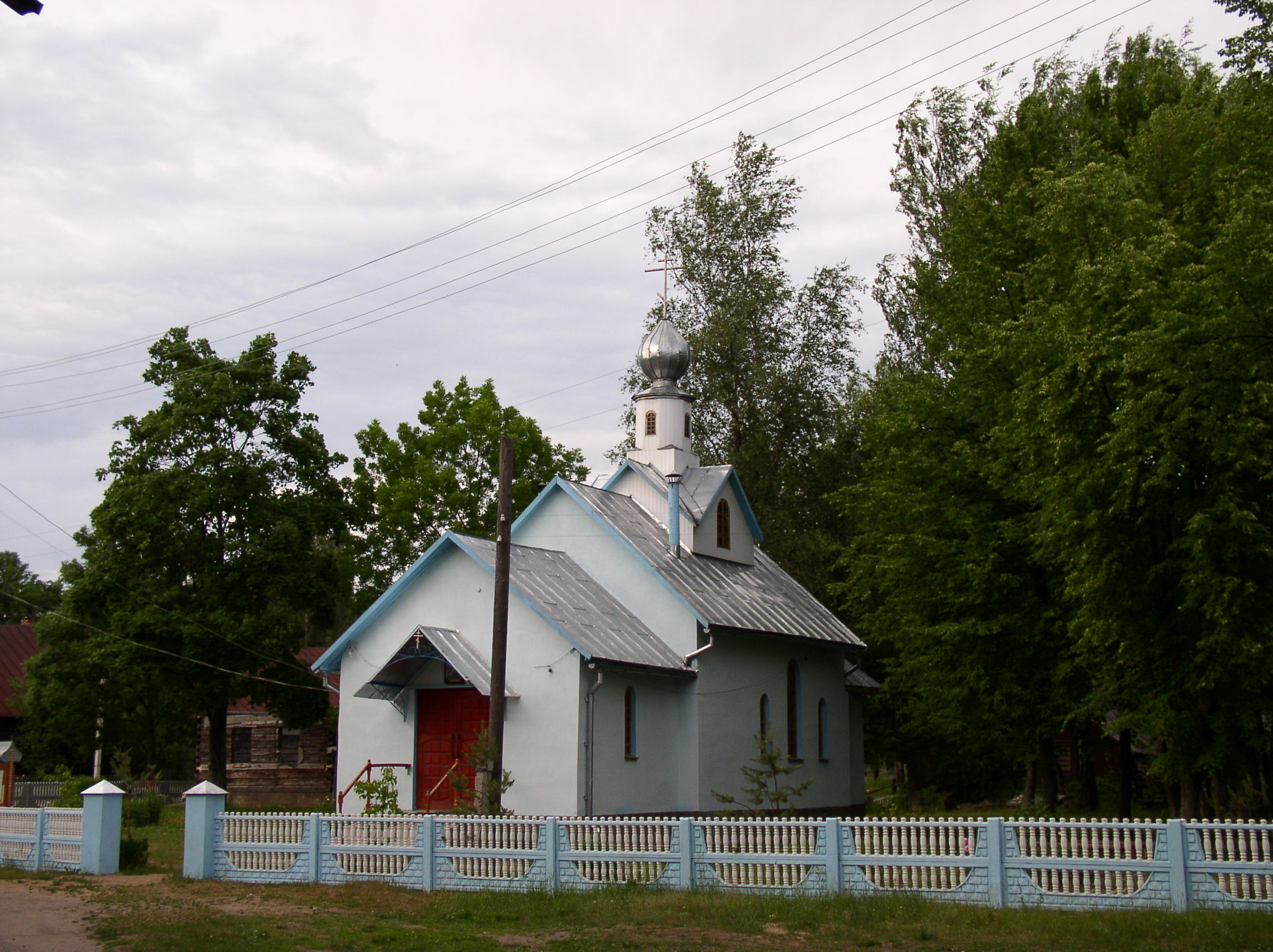 Church of the Dormition. Yezyaryshcha, Belarus.